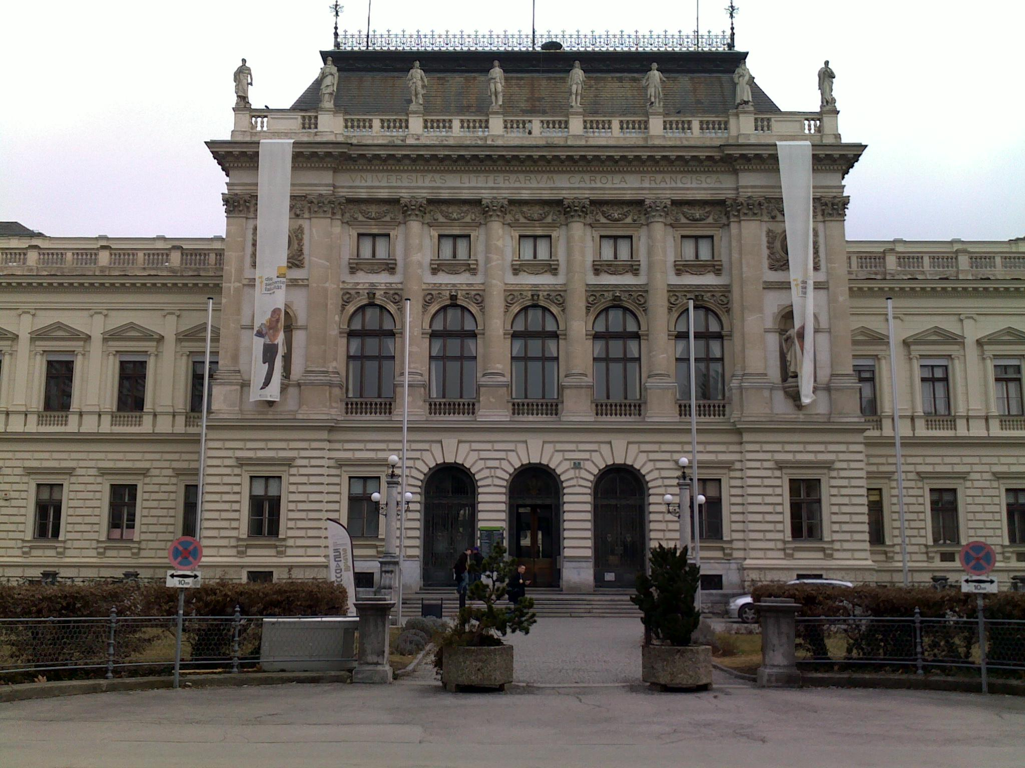 Main building of the University of Graz